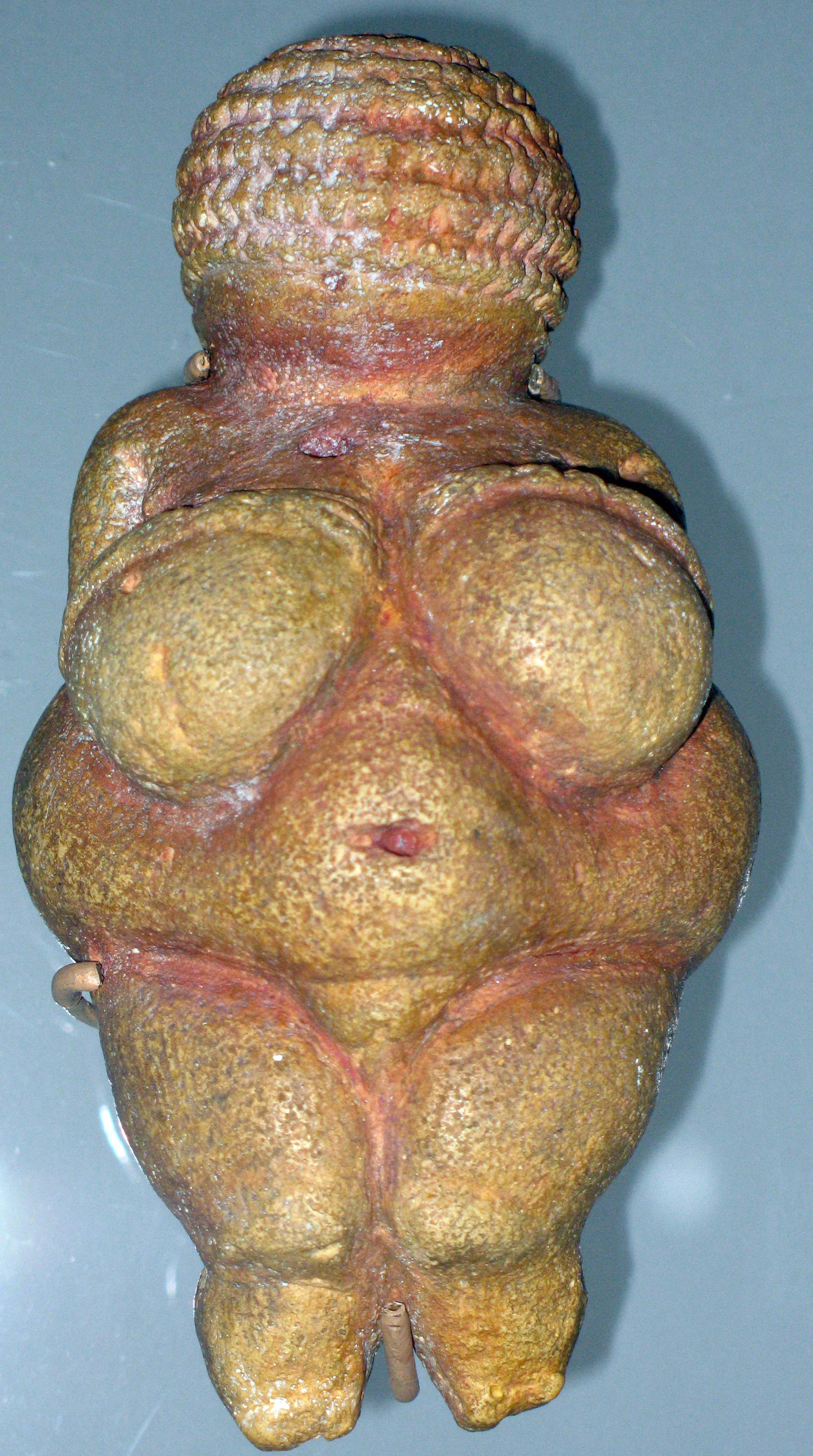 "Venus of Willendorf": Female figure sculpted in limestone, 25.000 years old